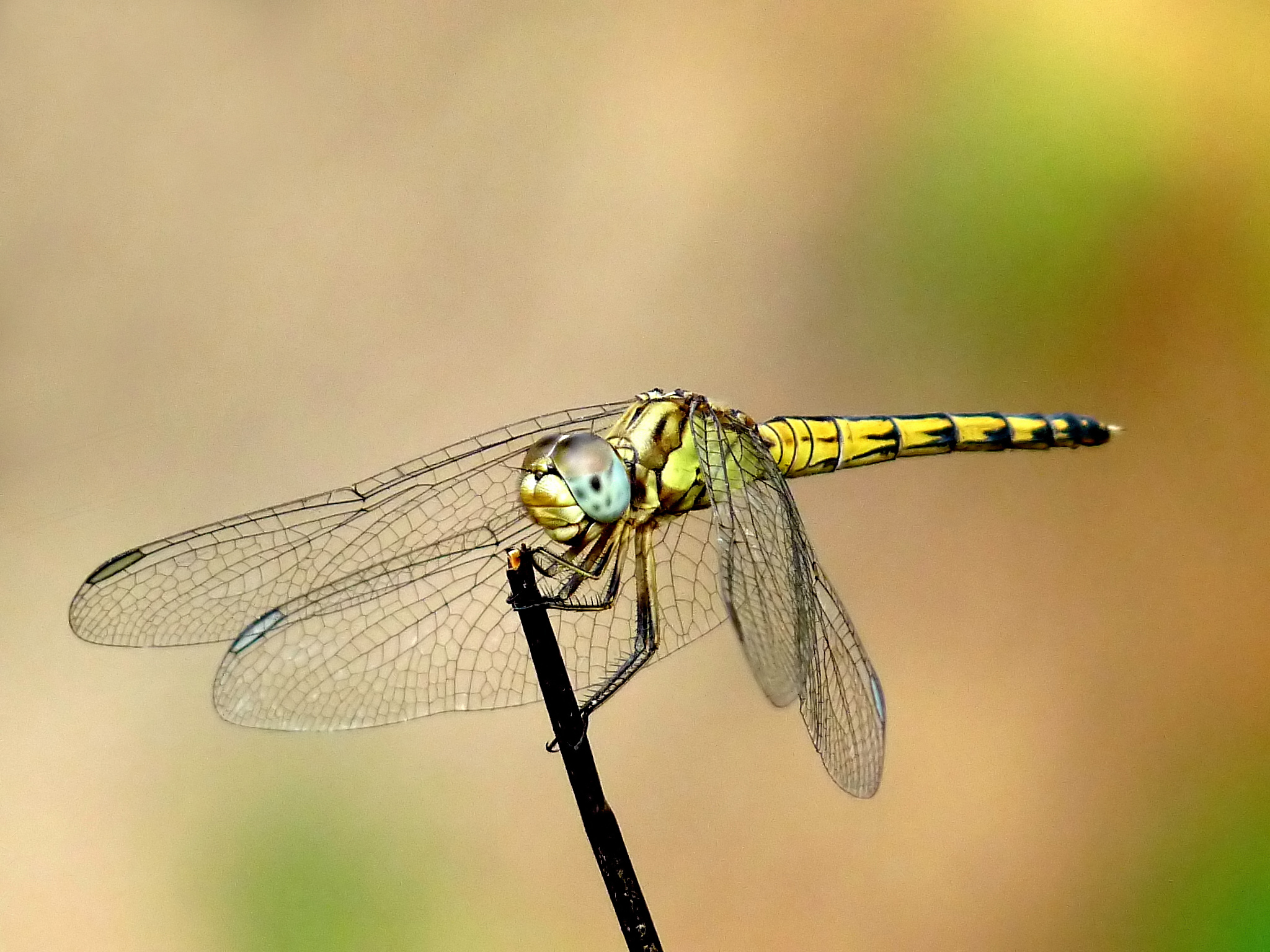 Indothemis carnatica female It is a medium sized blackish brown dragonfly with violet-black abdomen with contrasting pale yellow anal appendages. Female is very different in colour; greenish yellow thorax and abdomen marked with brown and black. Inhabits in weedy lakes and ponds. Uncommon. Taken at Kadavoor, Kerala, India.